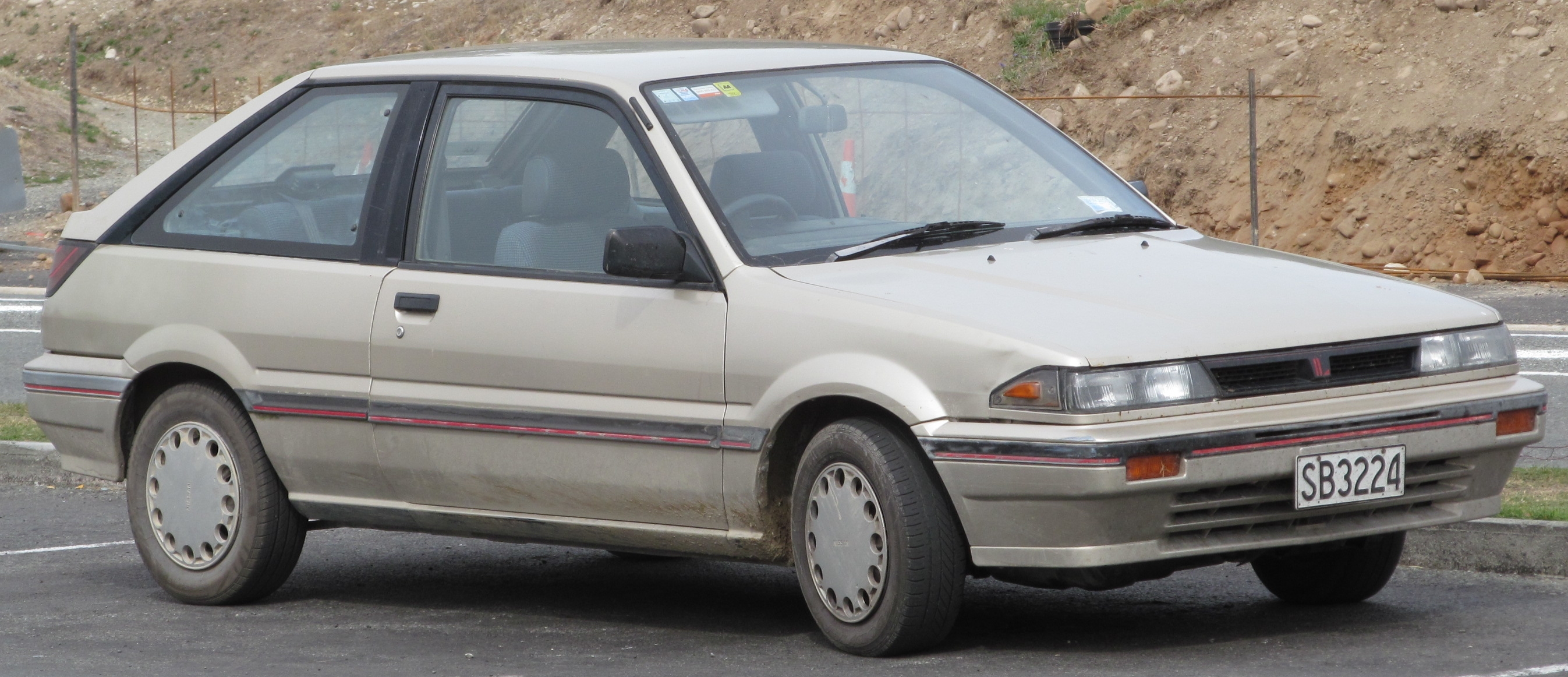 Another unusual JDM car here, spotted at Lake Tekapo of all places. The Langley was essentially a sporty Nissan Sunny/Pulsar/Sentra with a restyled front and rear end. Very few of these came to NZ compared to the standard Pulsars.